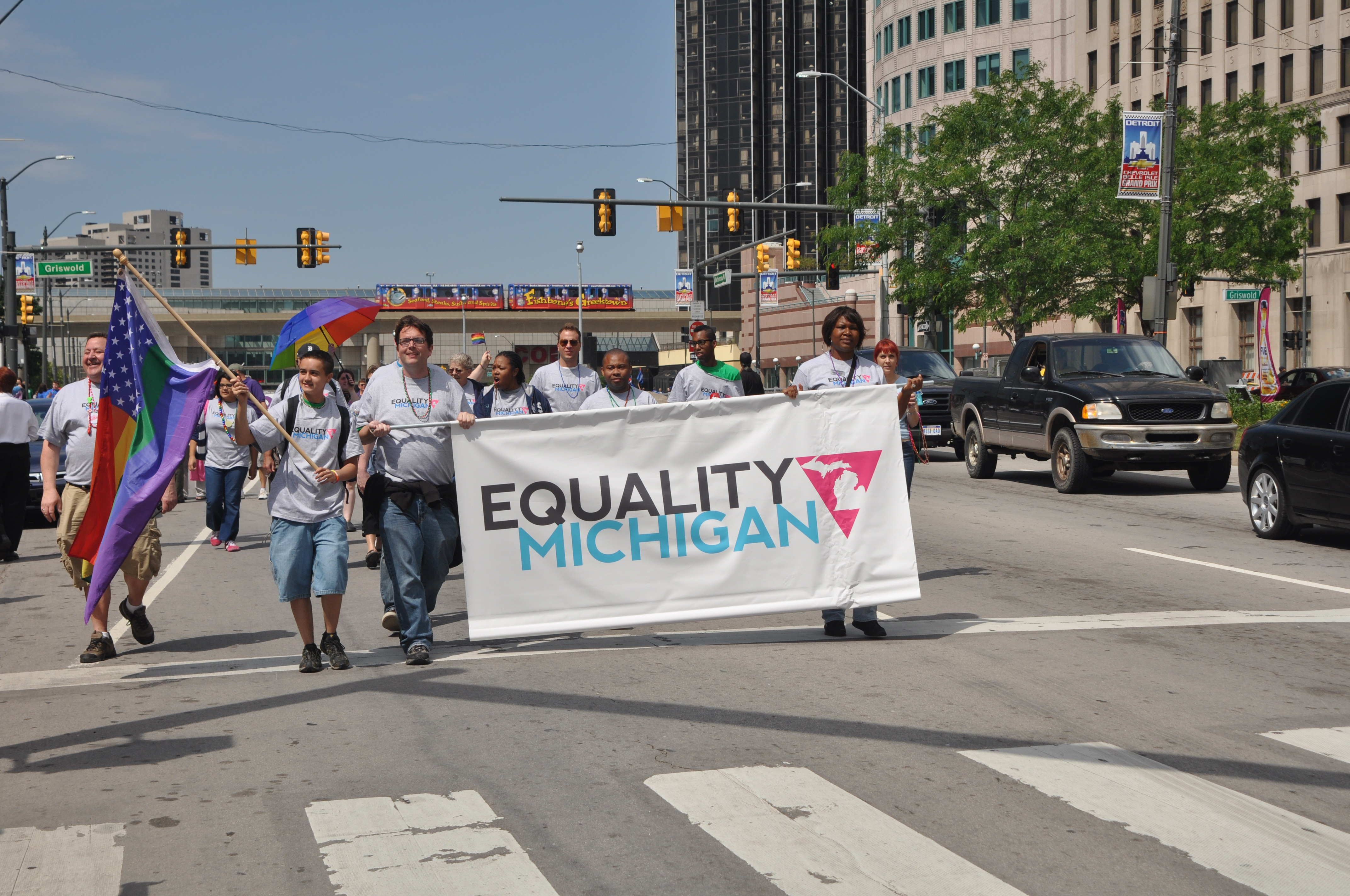 Parade during Motor City Pride 2012 near Detroit Michigan's Hart Plaza